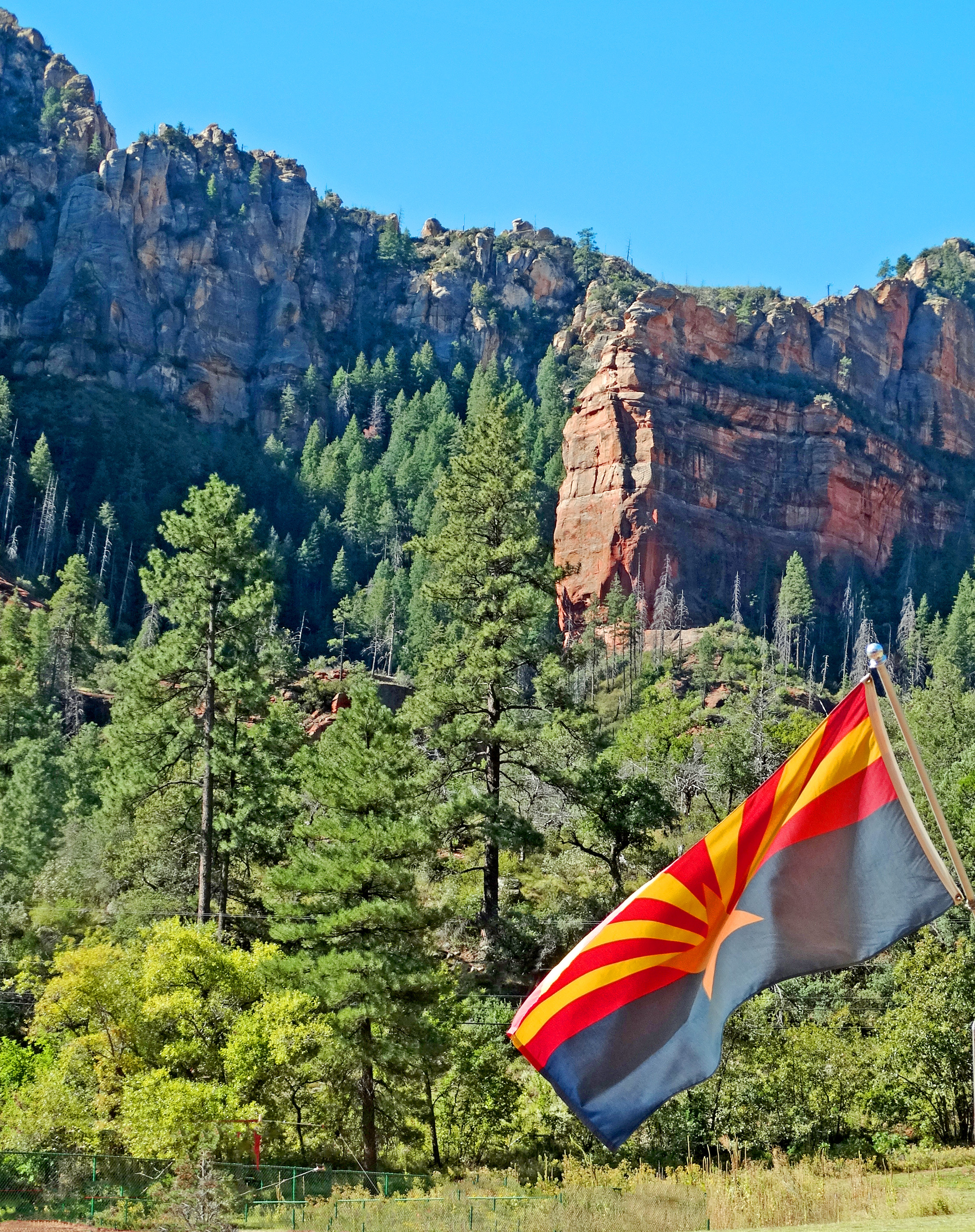 (1 in a multiple picture album) Sitting in the shade of the general store I caught this image of the Arizona State Flag with the high, red-rock cliff and spires behind.